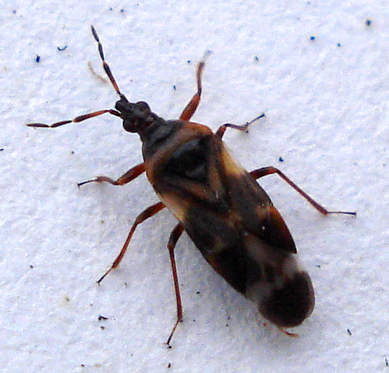 Anthocoris nemoralis On: Please see photo Location: Lincoln City Site: Boultham Park